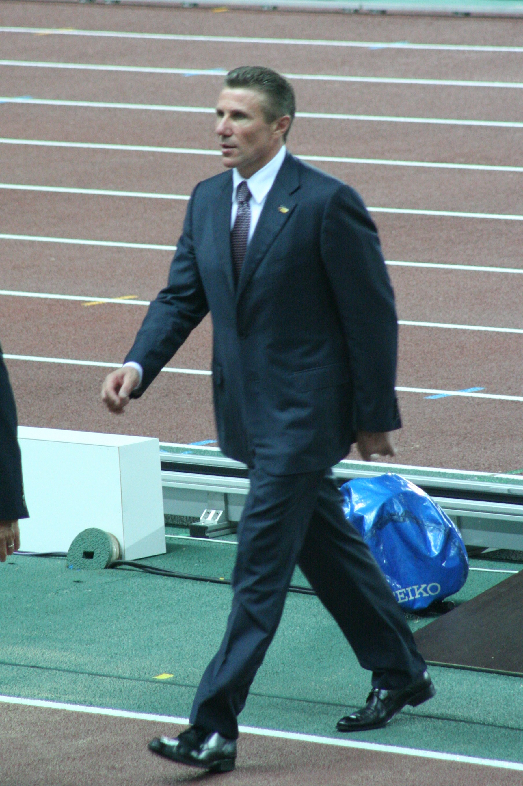 World Athletics Championships 2007 in Osaka - Pole Vault World Record holder Sergey Bubka, assisting at a victory ceremony